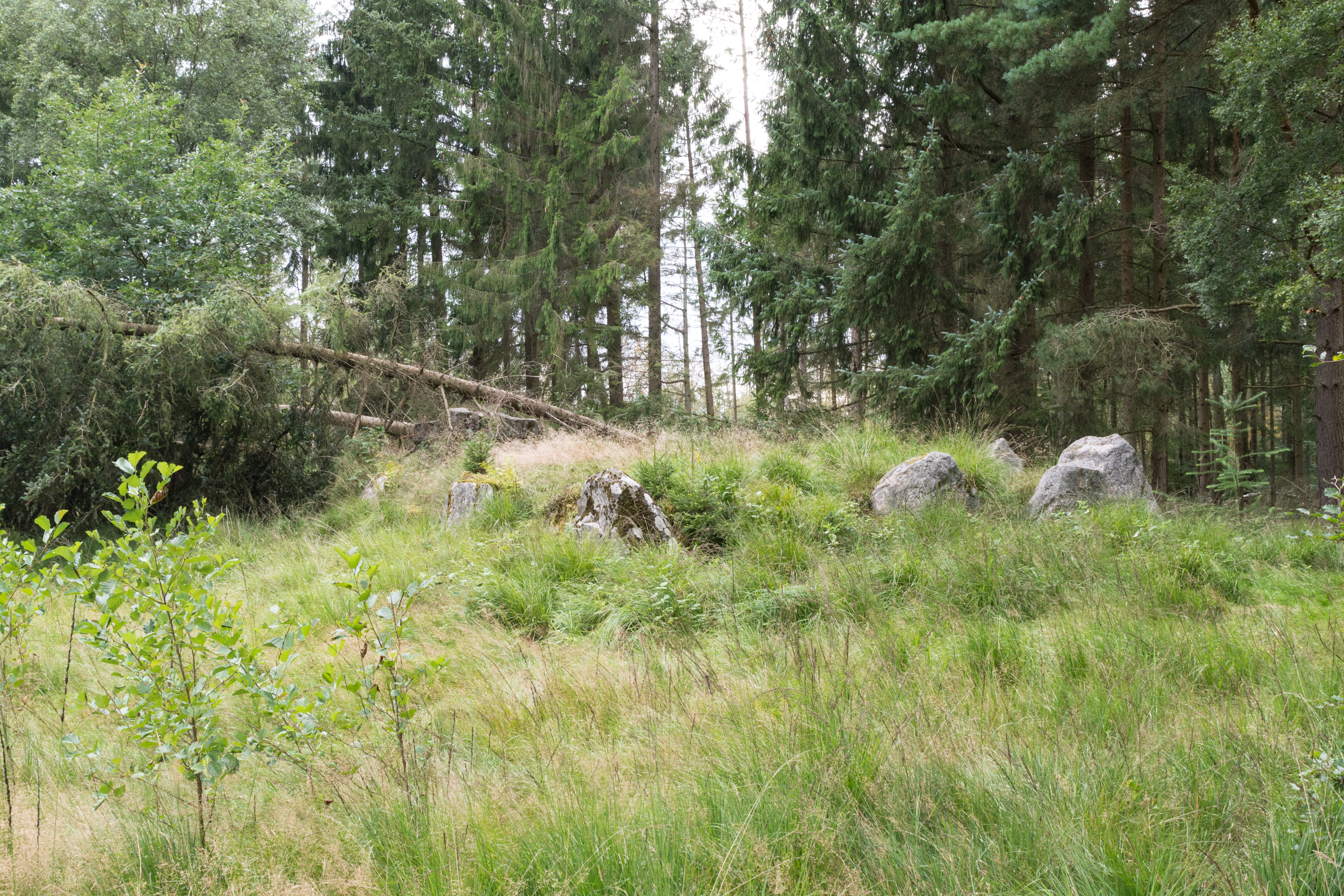 Tumulus Petersminde Langdysse (Norddjurs Kommune).